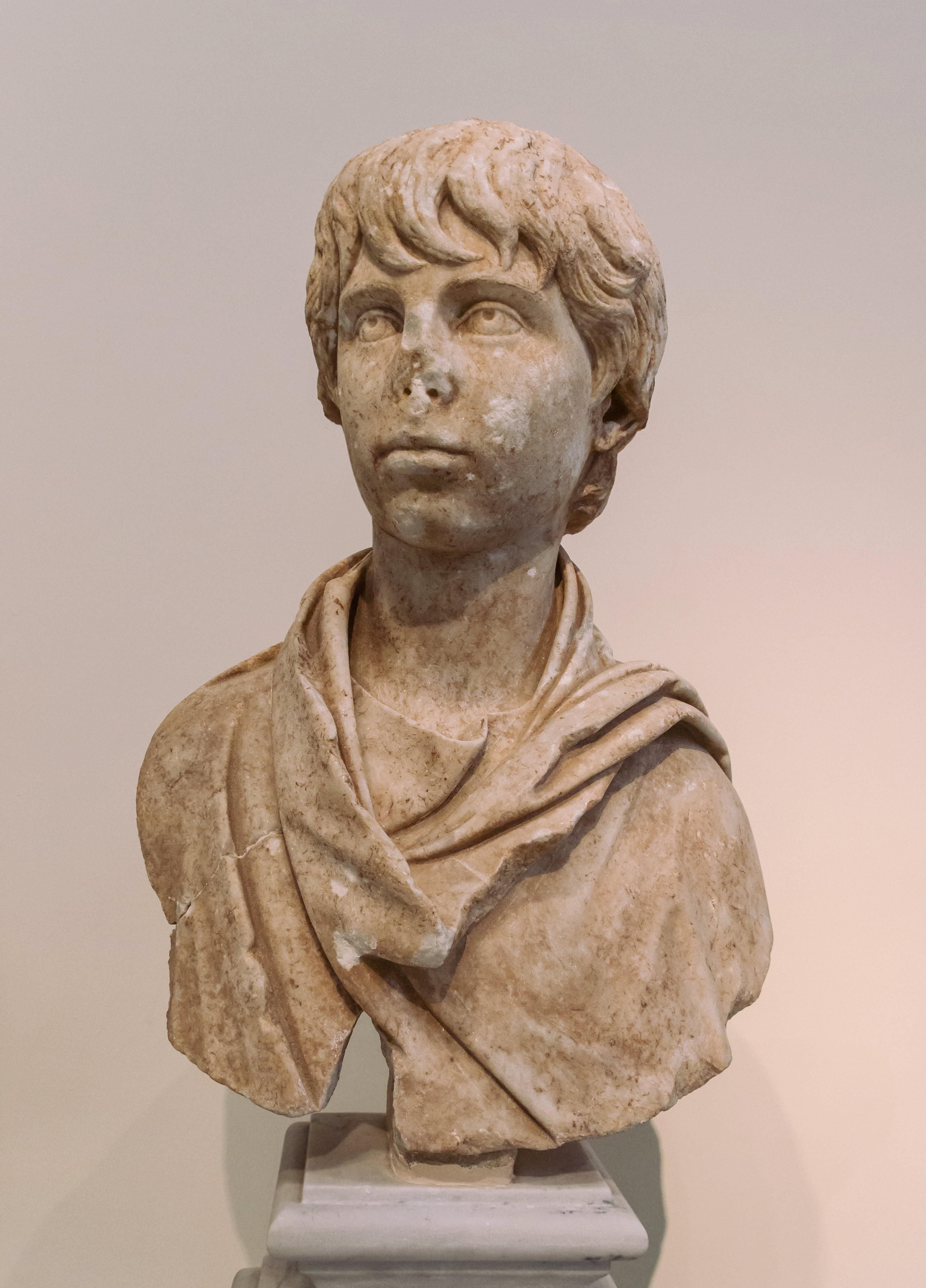 Portrait bust of Polydeukion. Parian marble. Found in Kiphisia, Attica. Polydeukion (or Polydeuktes), was the pupil and the favourite (lover) of Herodes Atticus. Middle of the 2nd c. AD.